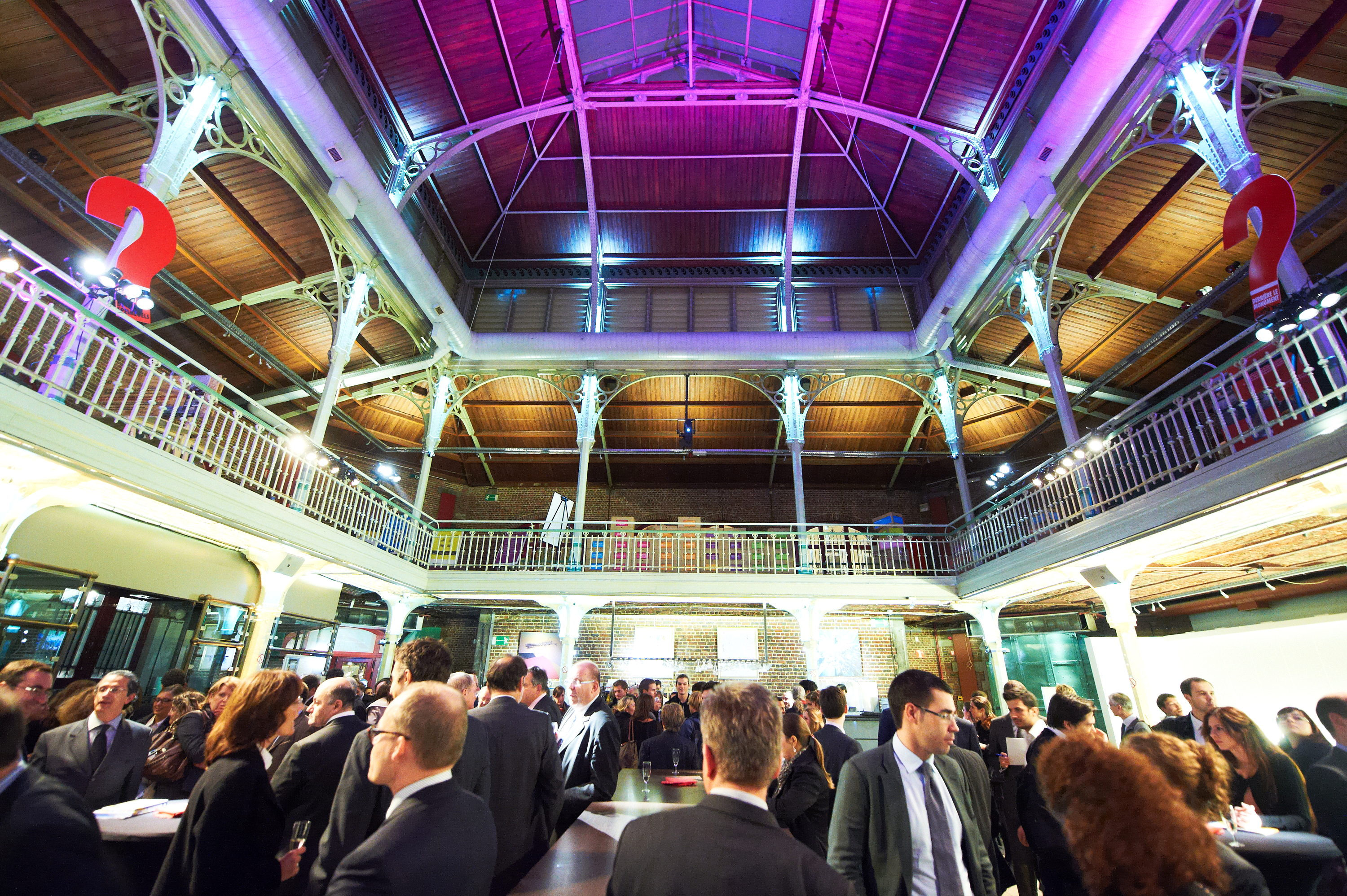 EPP Conference on Euro (7)